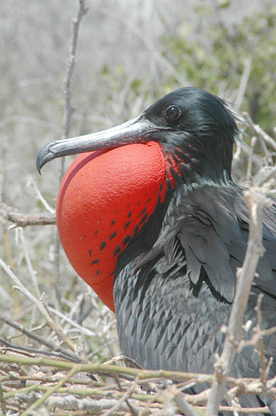 Male Frigate bird, Galapagos Islands, Ecuador. Image taken by Clark Anderson/Aquaimages.